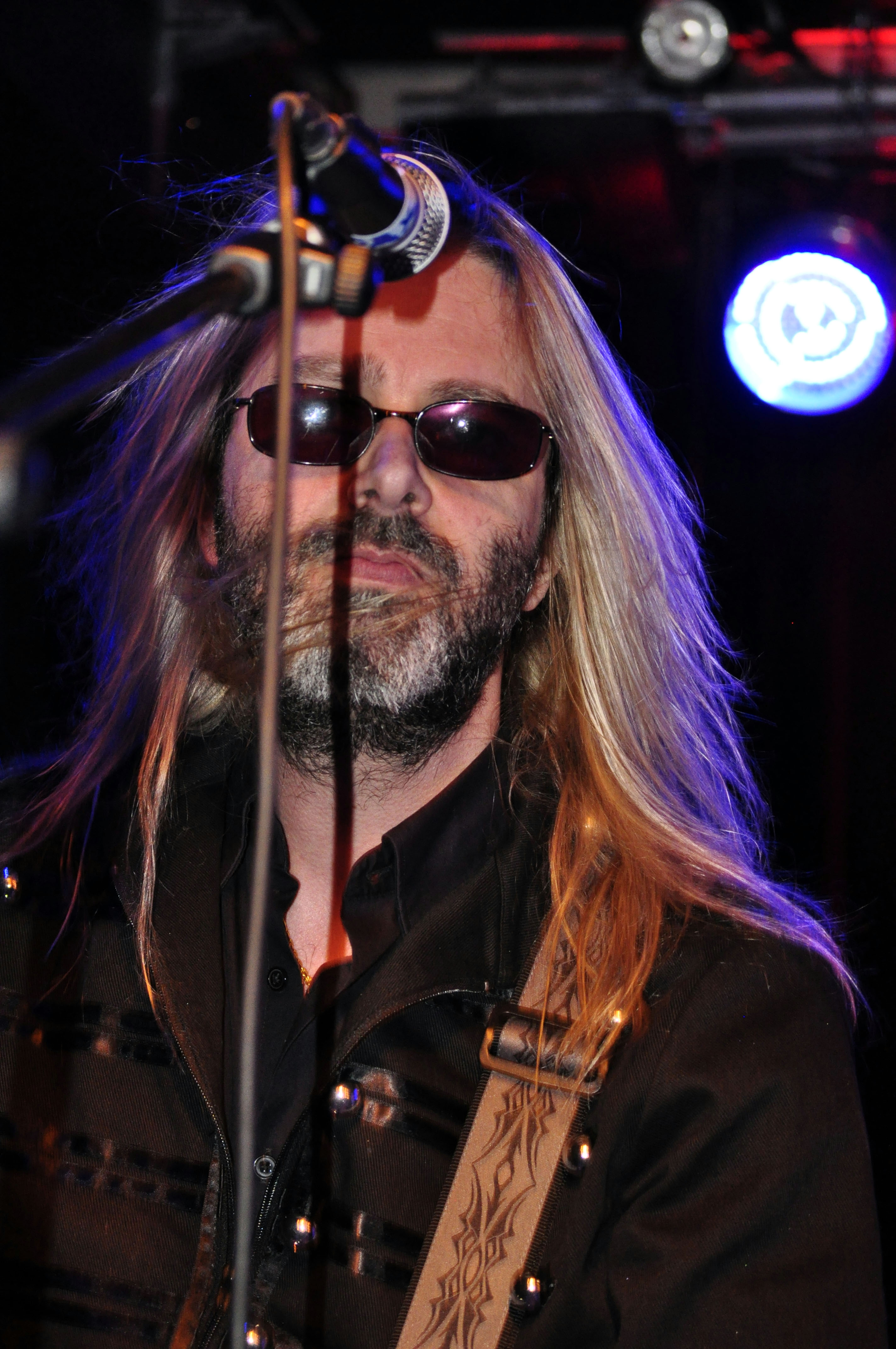 Douglas R. Docker performing in Saluzzo, Italy, May 2012